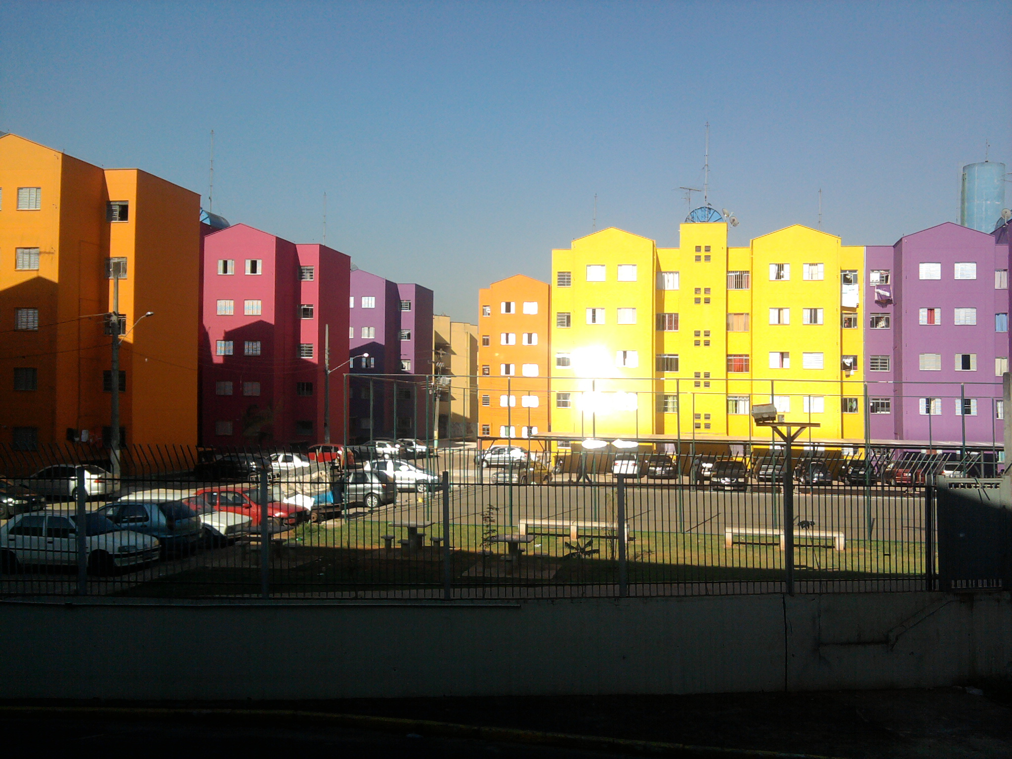 Housing complex that was once a slum located in the neighborhood of Lemon in Sao Paulo, Brazil